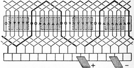 When the completed winding of fig. 22 is developed as in this figure, it is seen to work continuously forwards round the armature in zigzag waves, one of which is marked in heavy lines, and the number of complete tours is equal to the average of the back and front pitches.